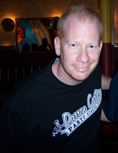 Photo was taken with my personal digital camera after Darren Carter's performance at the Laugh Factory in Hollywood, Los Angeles, CA, USA